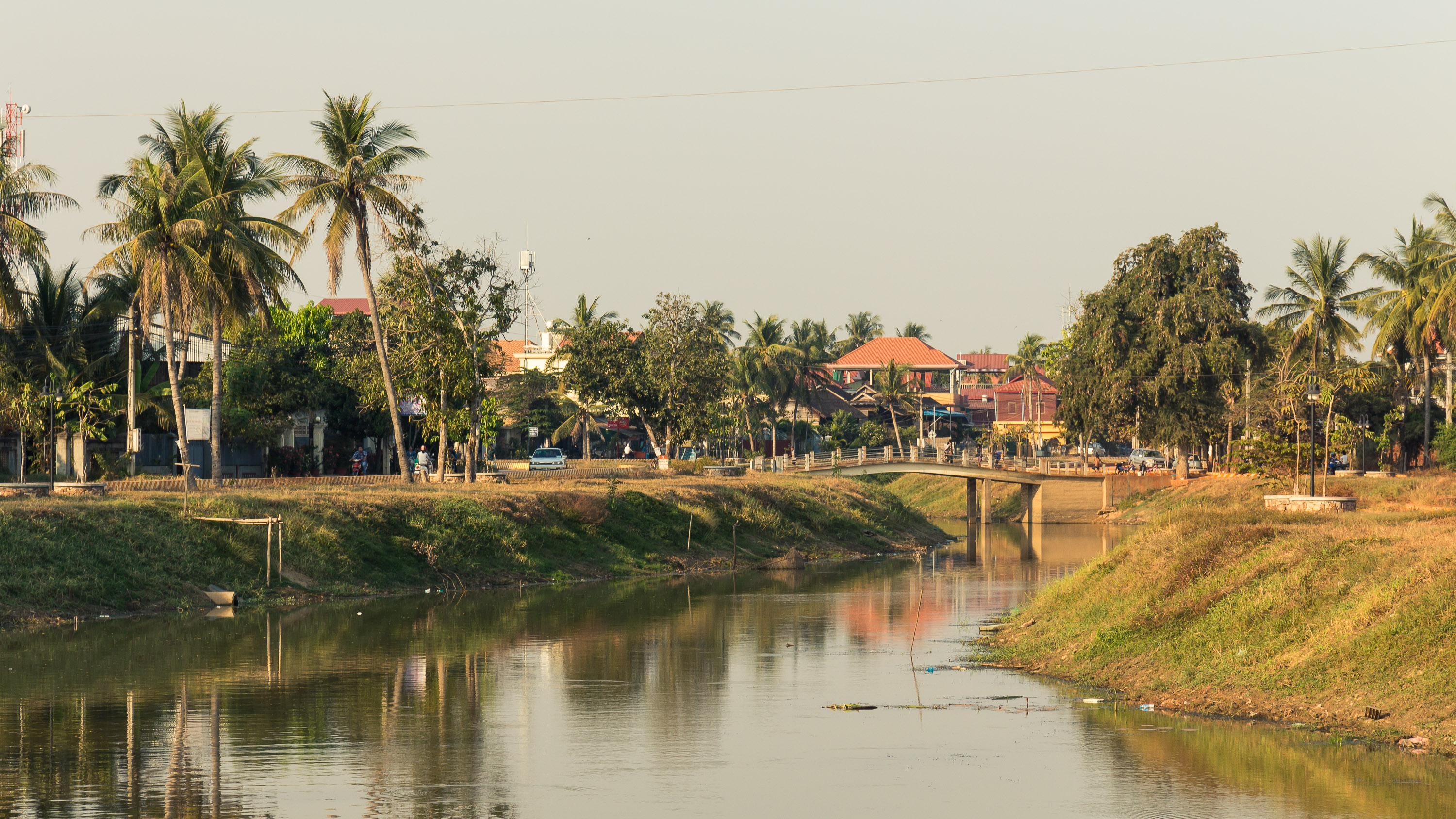 Siem Reap city and Siem Reap river